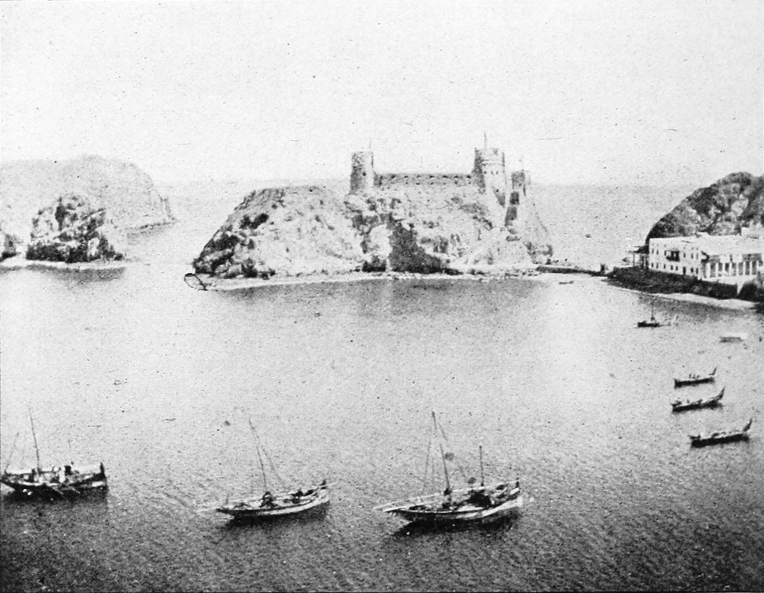 This is an image of Muscat harbor, taken from a book published in 1903 (PD). Refer to page 744 in the book for the image.